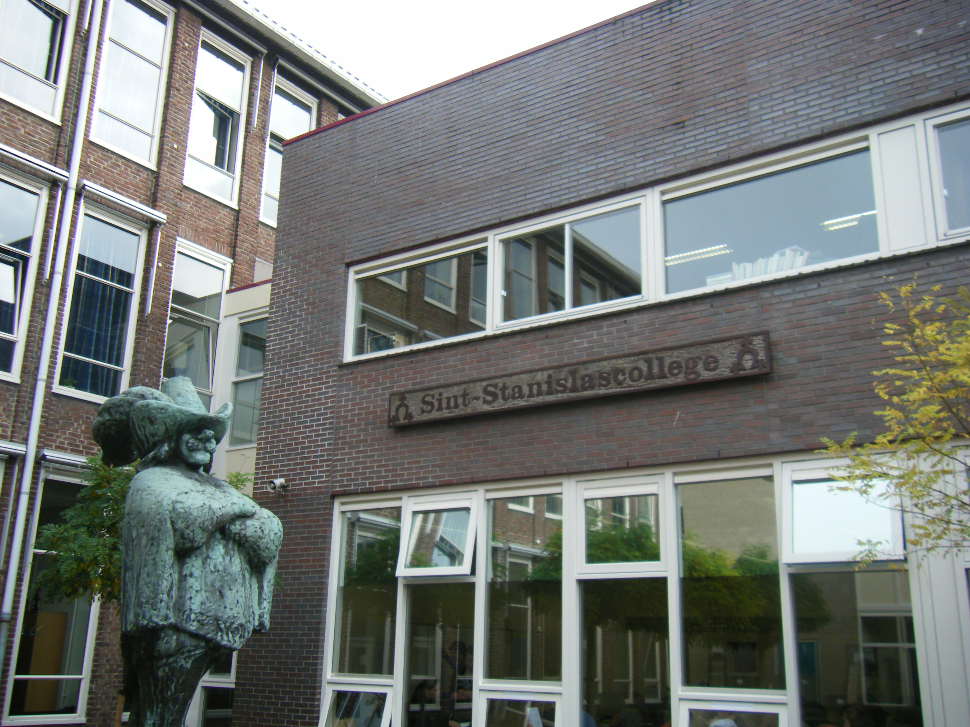 Stanislascollege in Delft, with statue of Cyrano Bergerac by Arie Teeuwisse